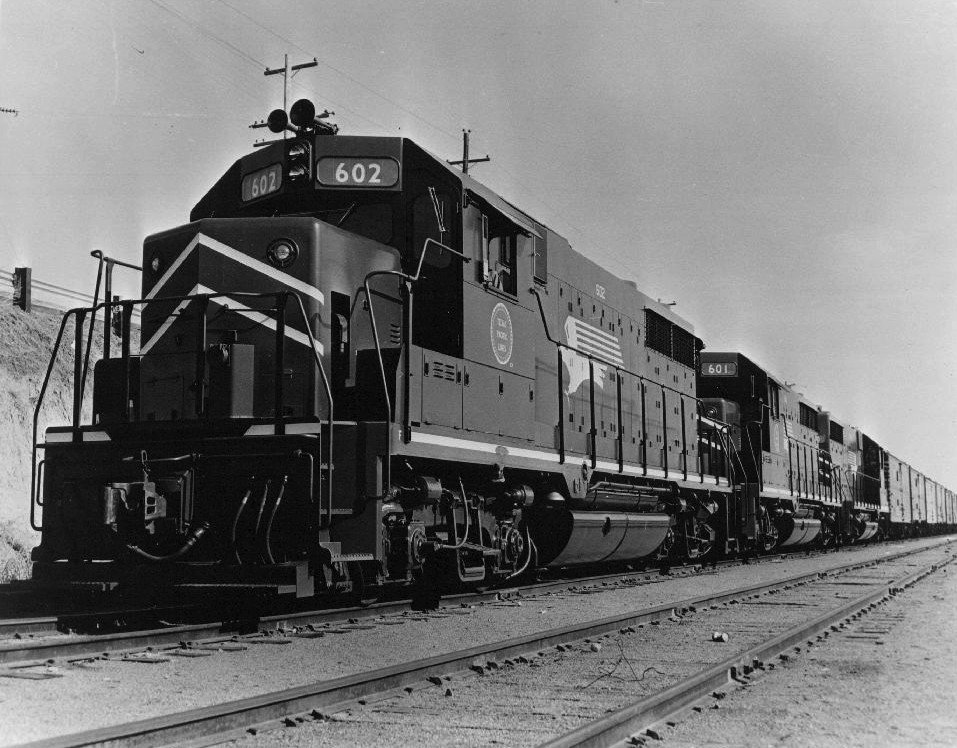 Photo of a Missouri Pacific freight locomotive.